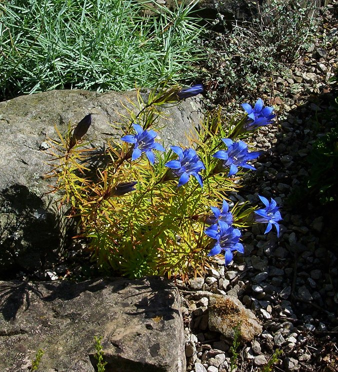 Not fussy as to soil pH but can be difficult to please nevertheless. This one always looks chlorotic (yellowish) by flowering time.